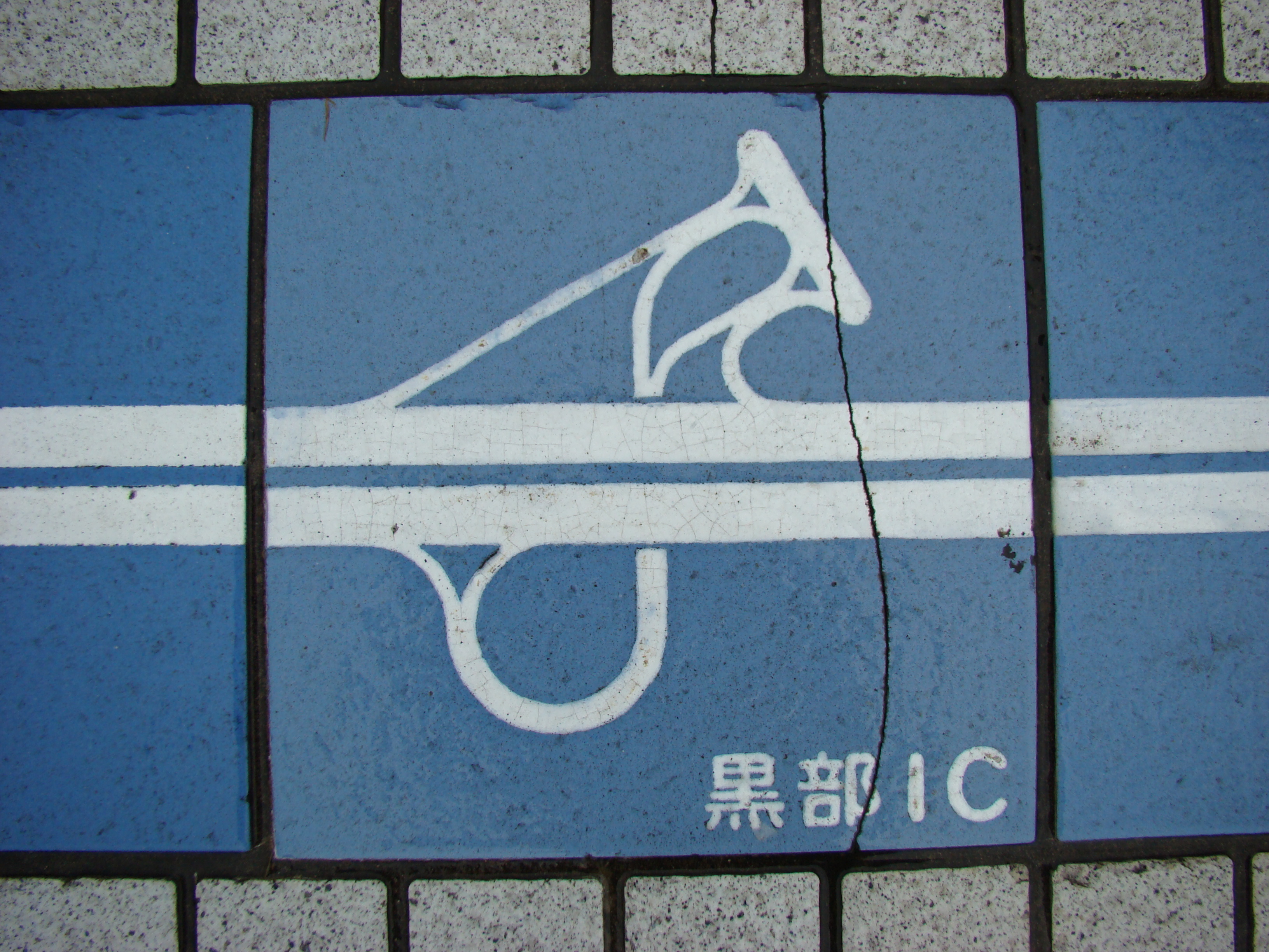 The tile which designed a shape of the Kurobe Interchange（Hokuriku Expressway）（There is this tile in Hokuriku Expressway Nadachi-Tanihama Service Area.）. Place - Chayagahara,Joetsu City,Niigata Prefecture,Japan Date - August 9, 2009 Format - JPEG, 3264x2448pixel, 24bit colors. Photographer - NALA Wiki (talk)